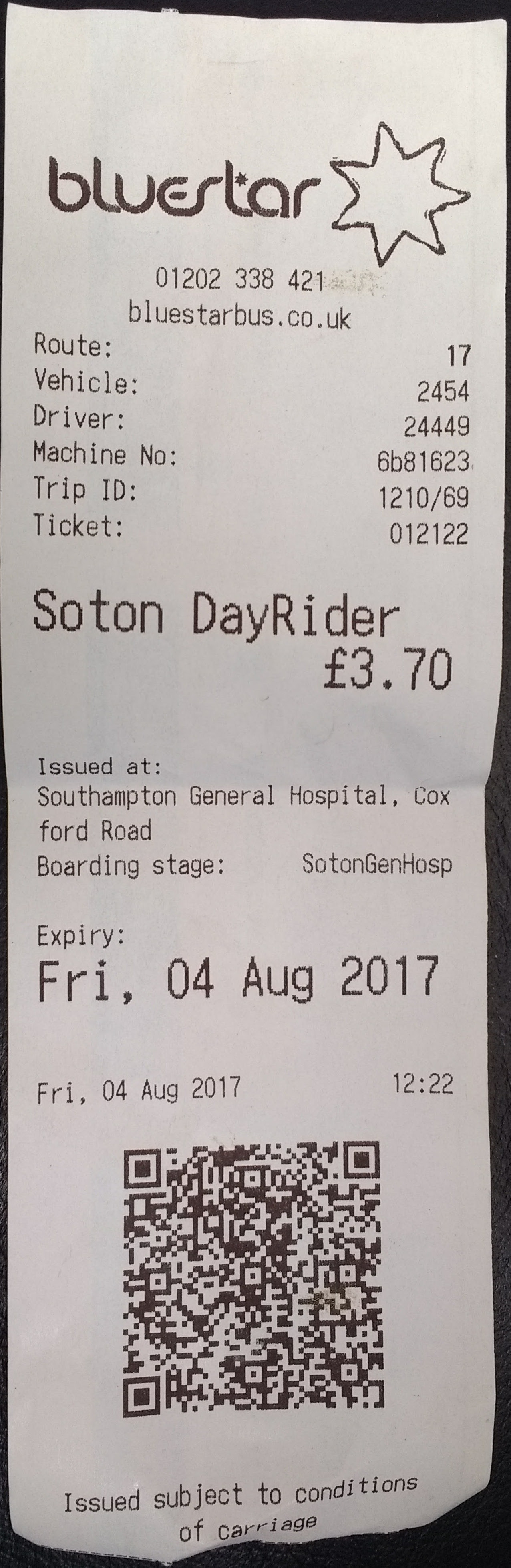 A picture of a ticket issued from a ticket machine on a bus.